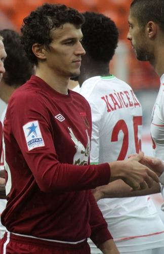 Roman Eremenko with FC Rubin Kazan.